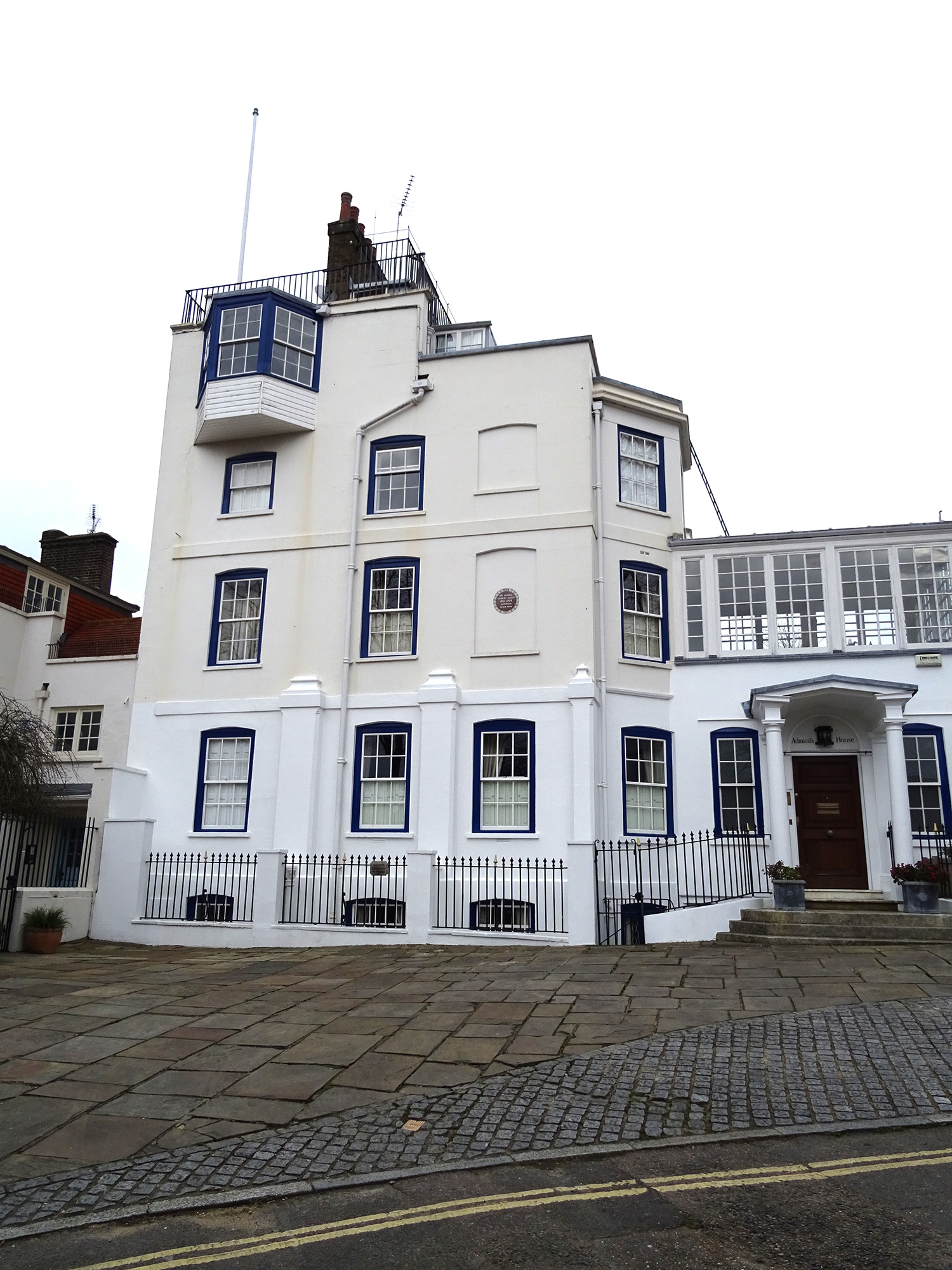 Sir George Gilbert Scott 1811-1878 Architect lived here - Admiral's House, Admiral's Walk, Hampstead, London NW3 6RS, London Borough of Camden